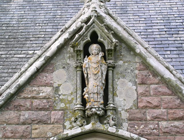 A statue of St Nicholas, St Nicholas Church, Nicholaston This statue is over the porch of the church, on the seaward side. St Nicholas is depicted with his hands outstretched in a blessing to the sailors of the Bristol Channel.